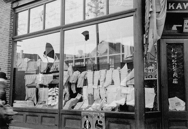 Damage done by the Asiatic Exclusion League to the store of V. Kawasaki Bros., 202 Westminster Avenue, Vancouver, British Columbia, Canada.